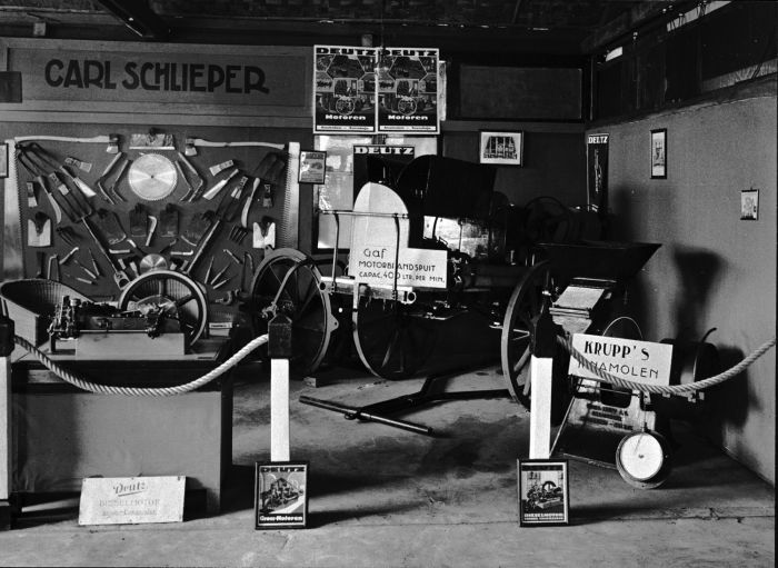 Stand of 'Carl Schlieper' at the Trade Fair in Bandung